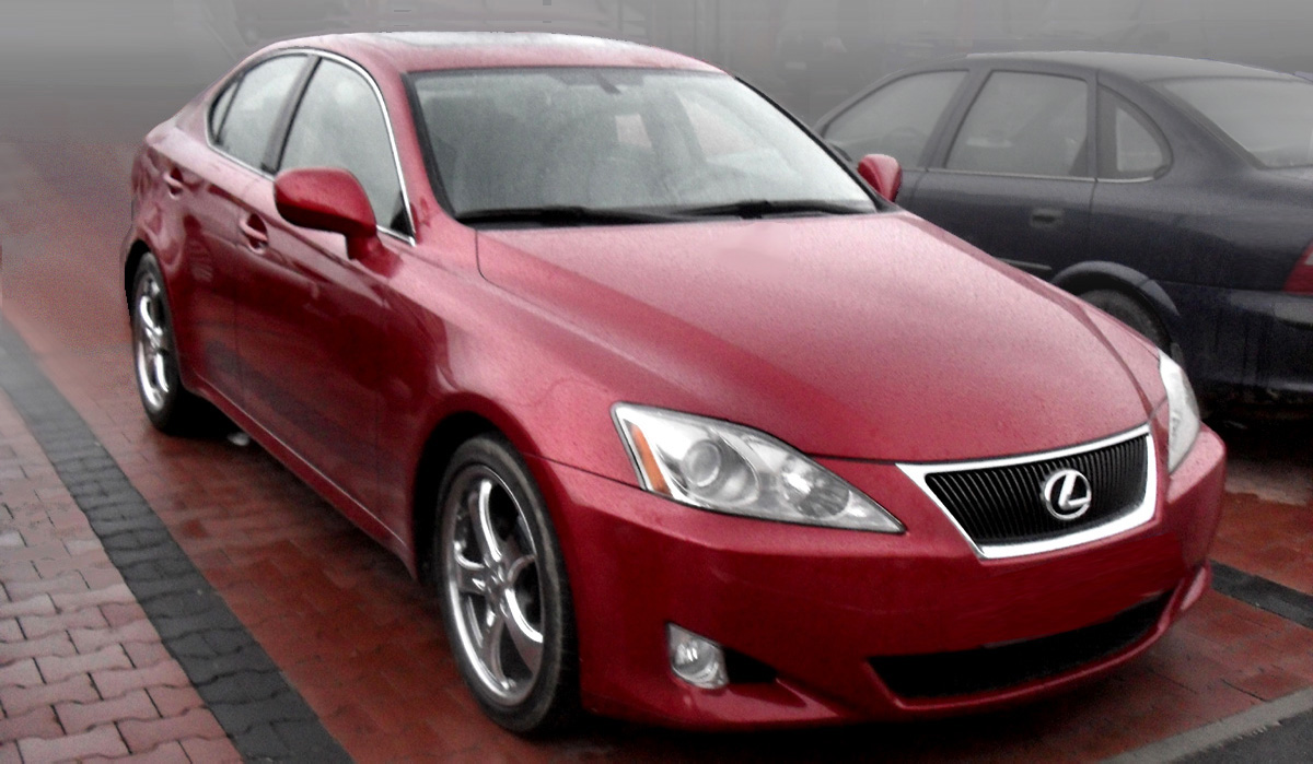 Lexus IS250 seen in Jasło, Poland.